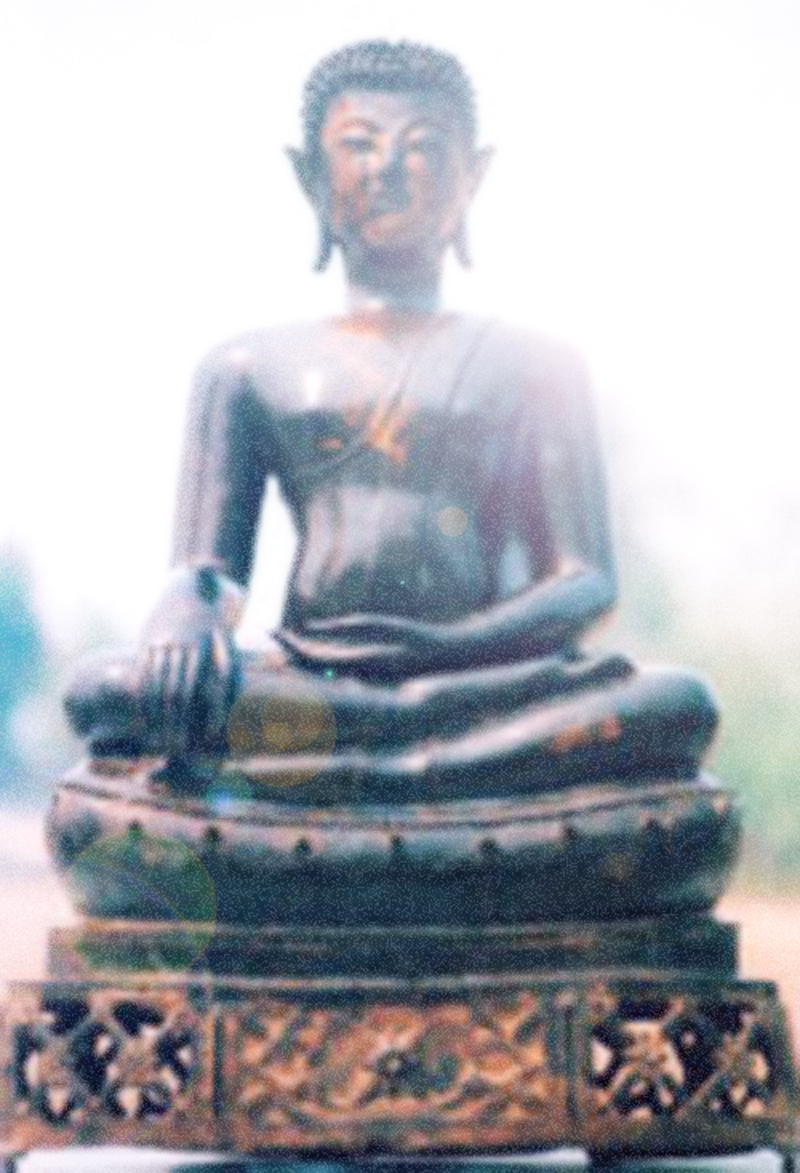 Phra Phutthamani Maitri Rattana, Samakkhi Witthayakhom School's Buddhist image, shot in 2006.